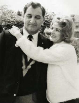 Publicity photo of Marjorie Lord and Danny Thomas from The Danny Thomas Show, 1962.